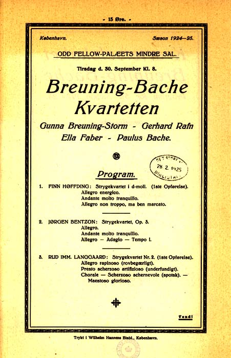 Programme for Breunung-Bache Kvartetten, 30 September 1924